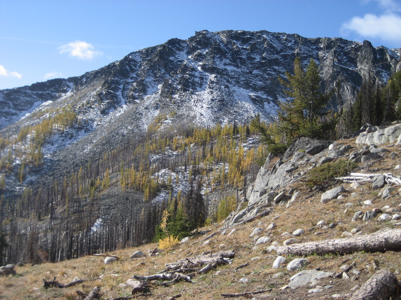 Tiffany Mountain (8275 feet) in Washington's North Cascades